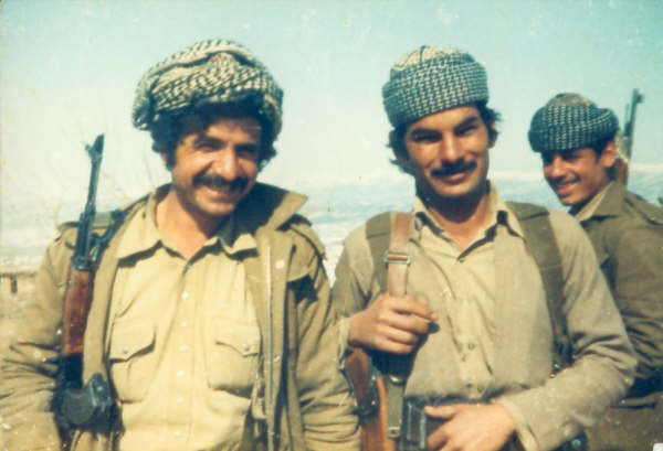 Partisans, northern Iraq, 1980s